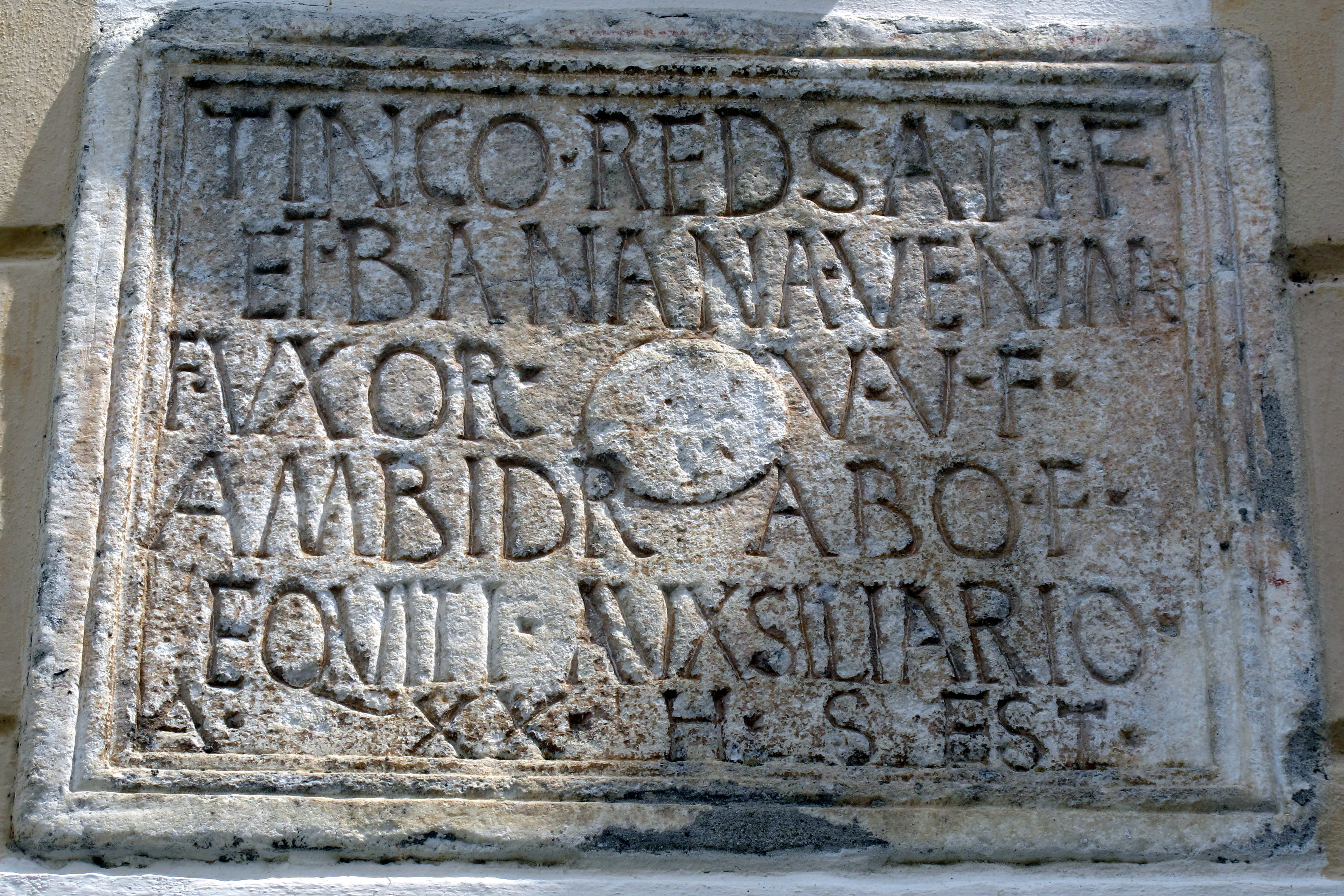 Roman grave stone on the south side of Parish church St. Paternianus in Paternion around 2011, district Villach-Land in Carinthia / Austria / EU. The inscription is, "Tinco, son of Redsax, and Banana, daughter of Venimar have that can both make a grave for her dead son Ambidrabus who has served in the Roman auxiliary troops, and died at twenty years. Here he is buried. The stone was not found in Paternion, but is most likely from Gorizia in Feistritz.